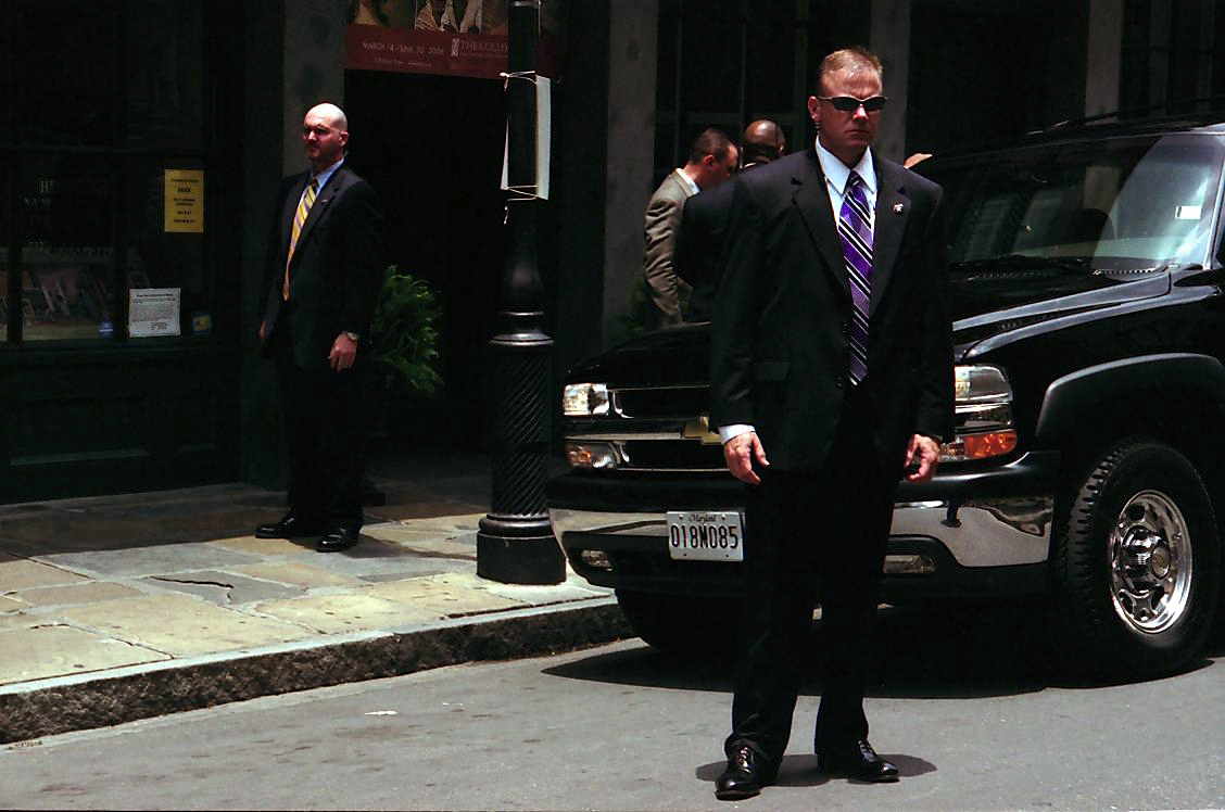 Secret Service agents stand guard outside of the building housing the Historic New Orleans Collection in which First Lady Laura Bush is present.